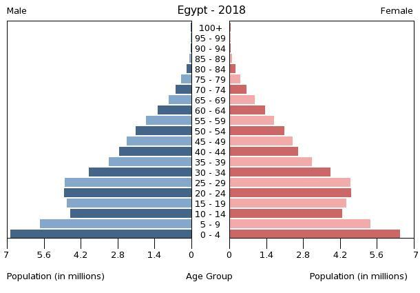 The population pyramid of Egypt illustrates the age and sex structure of population and may provide insights about political and social stability, as well as economic development. The population is distributed along the horizontal axis, with males shown on the left and females on the right. The male and female populations are broken down into 5-year age groups represented as horizontal bars along the vertical axis, with the youngest age groups at the bottom and the oldest at the top. The shape of the population pyramid gradually evolves over time based on fertility, mortality, and international migration trends.